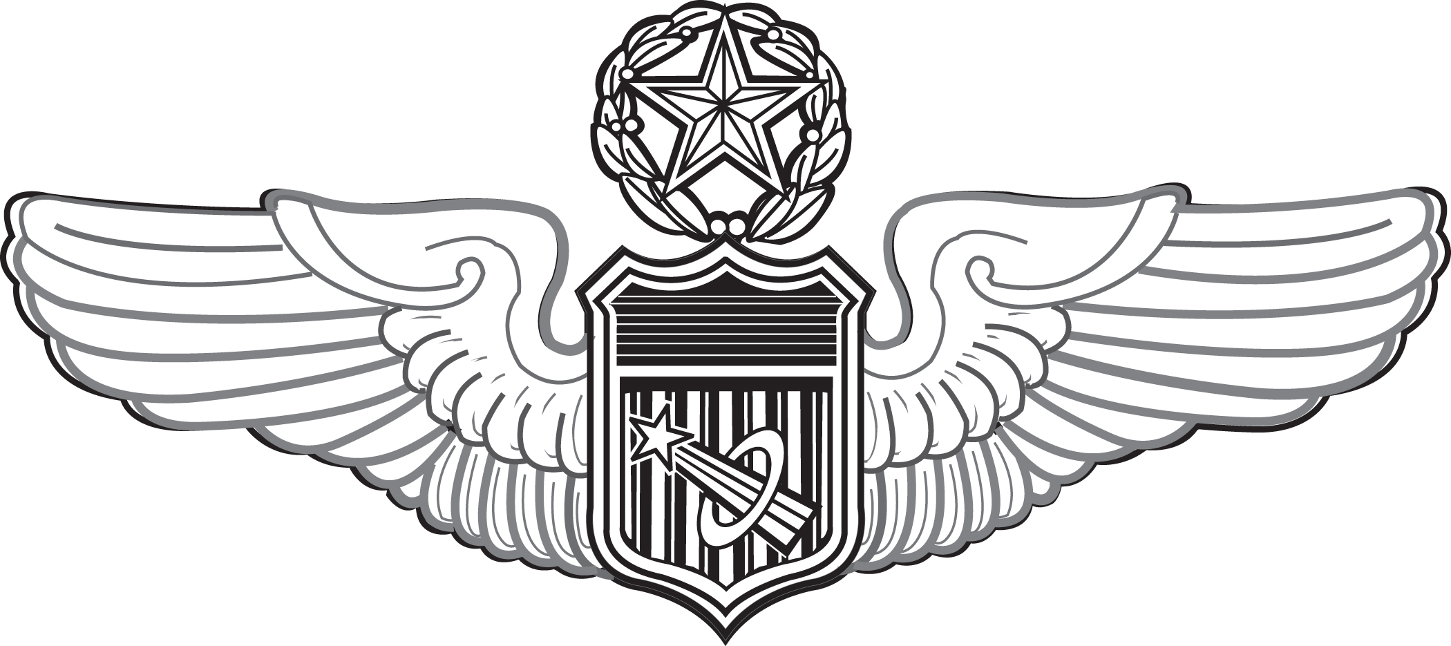 U.S. Air Force Command Pilot Badge with Astronaut Device